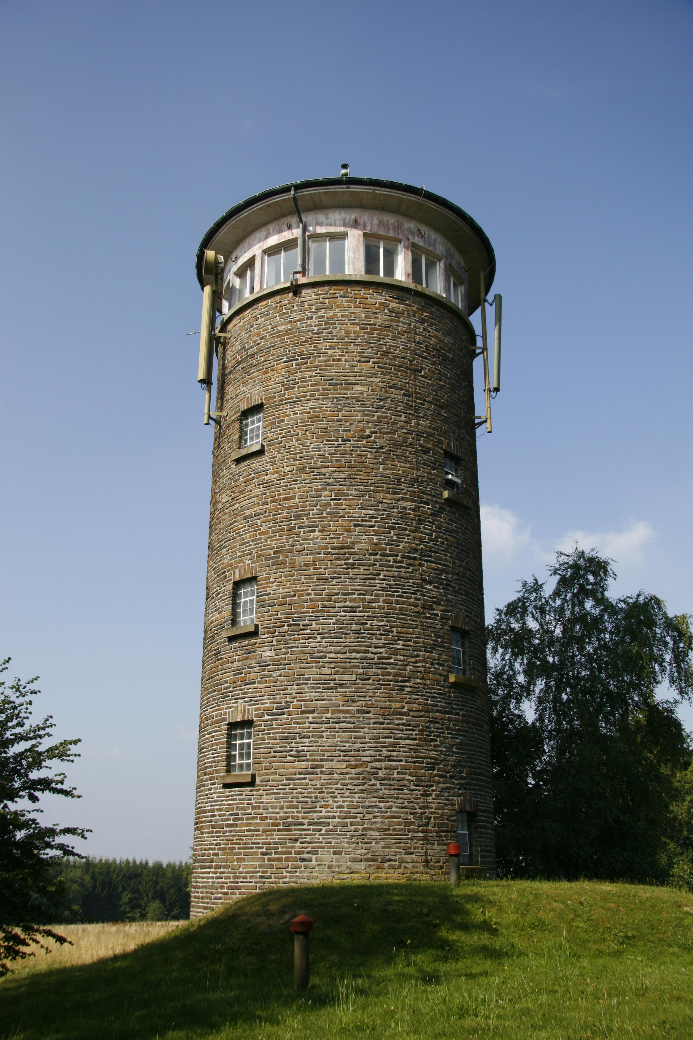 Water tower at Burgplatz / Huldange, Luxembourg. Second highest point in the country.